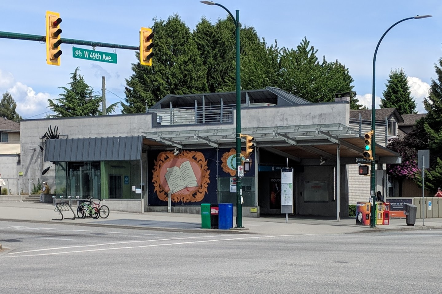 Langara–49th Avenue station entrance viewed from the westside of Cambie Street. May 2019.